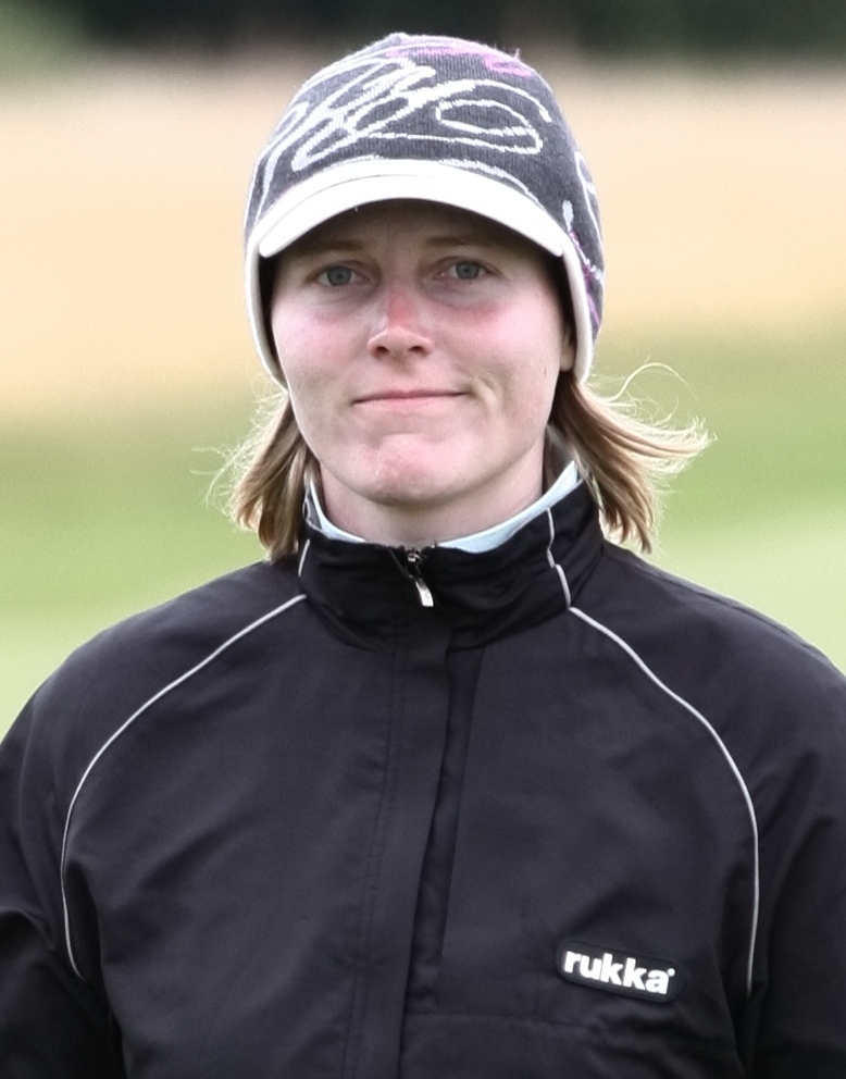 LYTHAM ST ANNES, UNITED KINGDOM - JULY 29: Bettina Hauert of Germany walks the 11th fairway during third practice round before 2009 Ricoh Women's British Open held at Royal Lytham & St Annes on July 29, 2009 in Lytham St Annes, England. (Photo by Wojciech Migda)